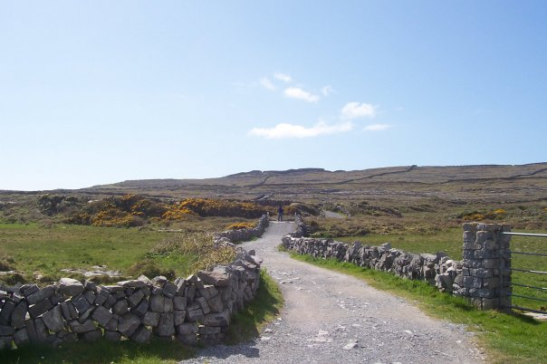 Road in Innismore, County Galway, Ireland